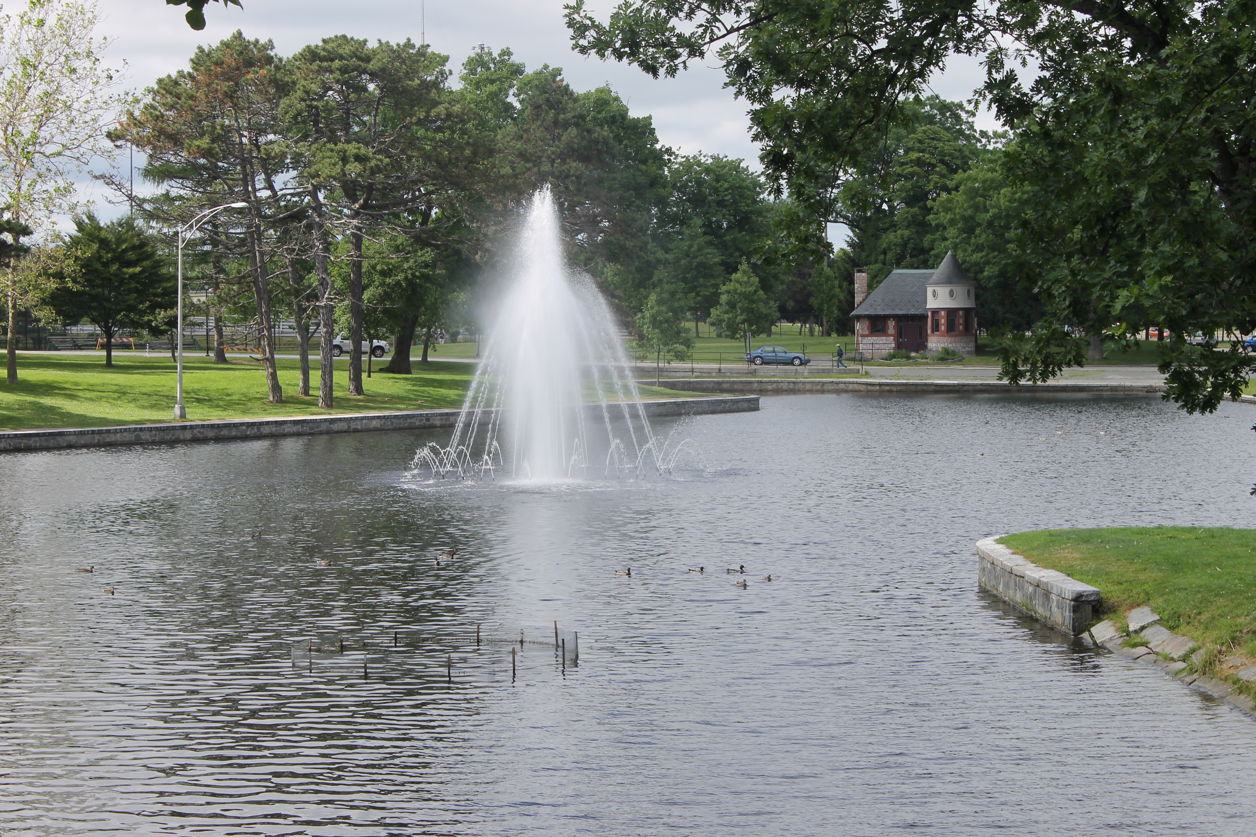 I took photo of Deering Oaks Park in Portland, ME, with Canon camera.